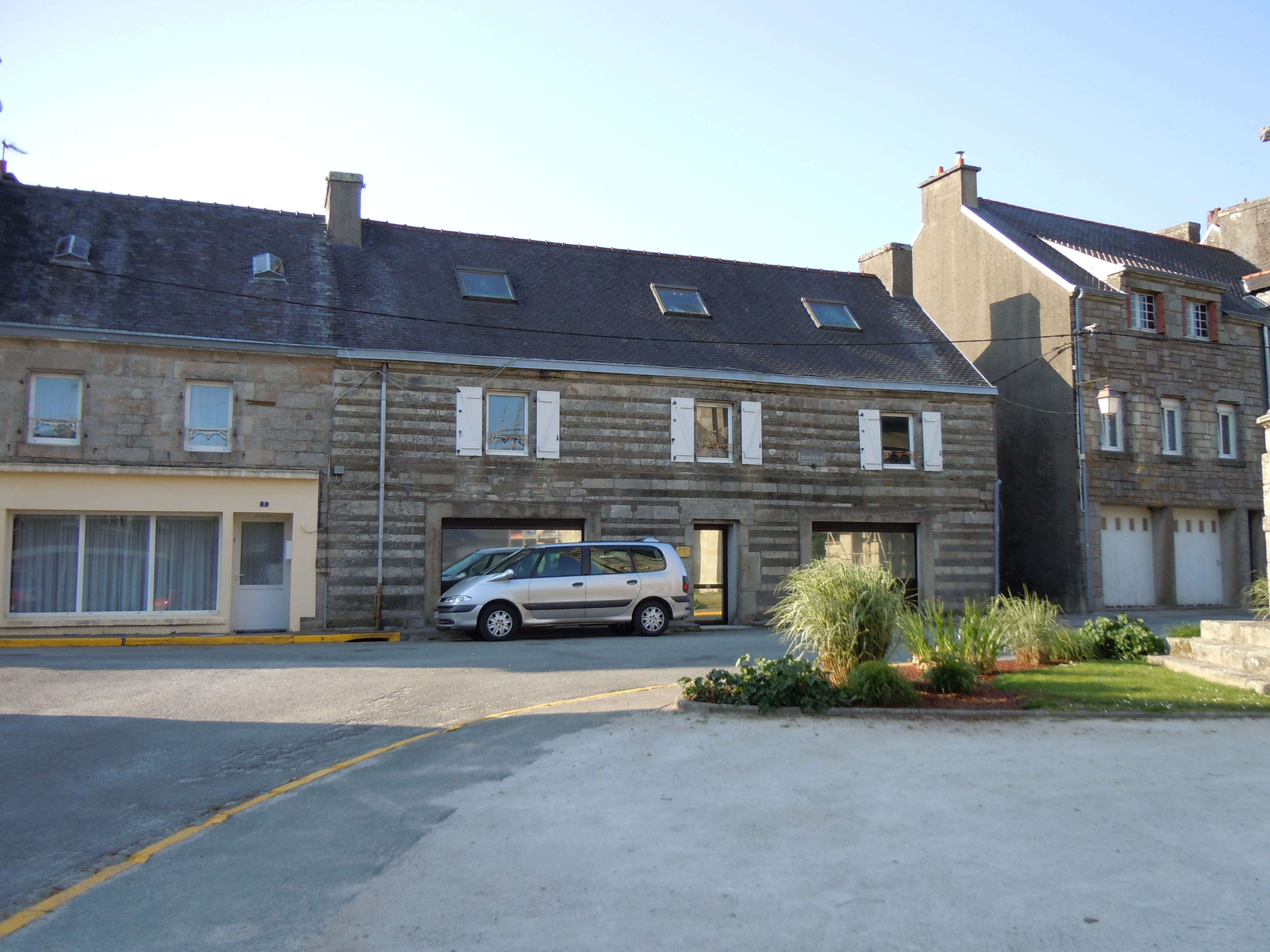 old house in Scaër, Brittany, inhabited by Brizeux